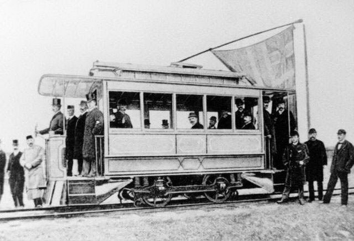 Blåtrikken. Trikk motorvogn type NEA uten nummer (fra 1898 som nr. 17 hos KES, fra 1902 som nr. 117), første norskbygde elektriske sporvogn. Vognkasse Skabo, elektrisk utstyr Norsk elektriske Aktiebolag. Bygd som demo-vogn for å vise reguleringsutstyr basert på motstandsjalting med serie-parallellkoplede motorer. Dignitære betrakter vogna. Merk flagg med sildesalat i strømavtageren.